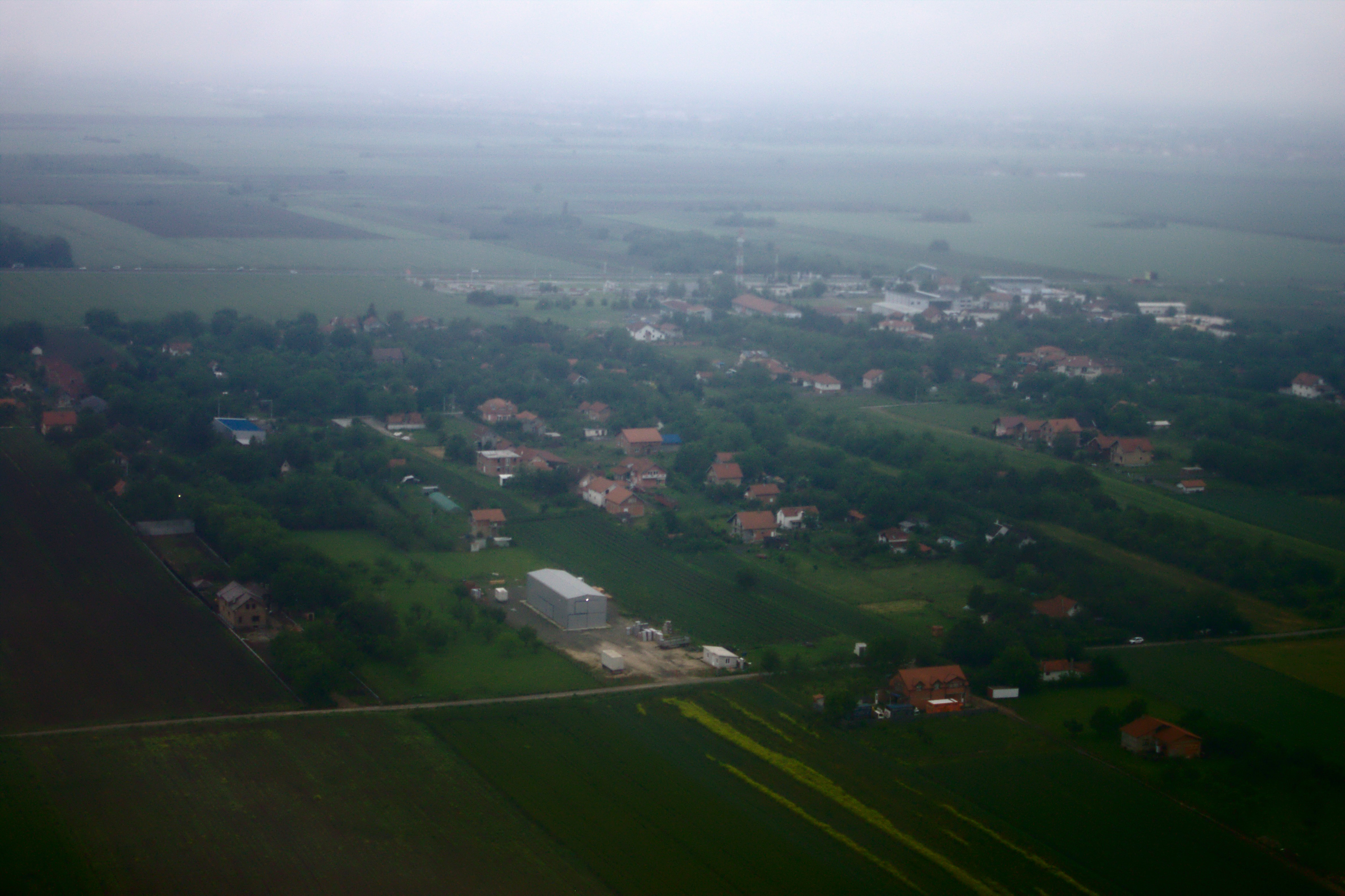 Radiofar neighborhood near Belgrade, Serbia